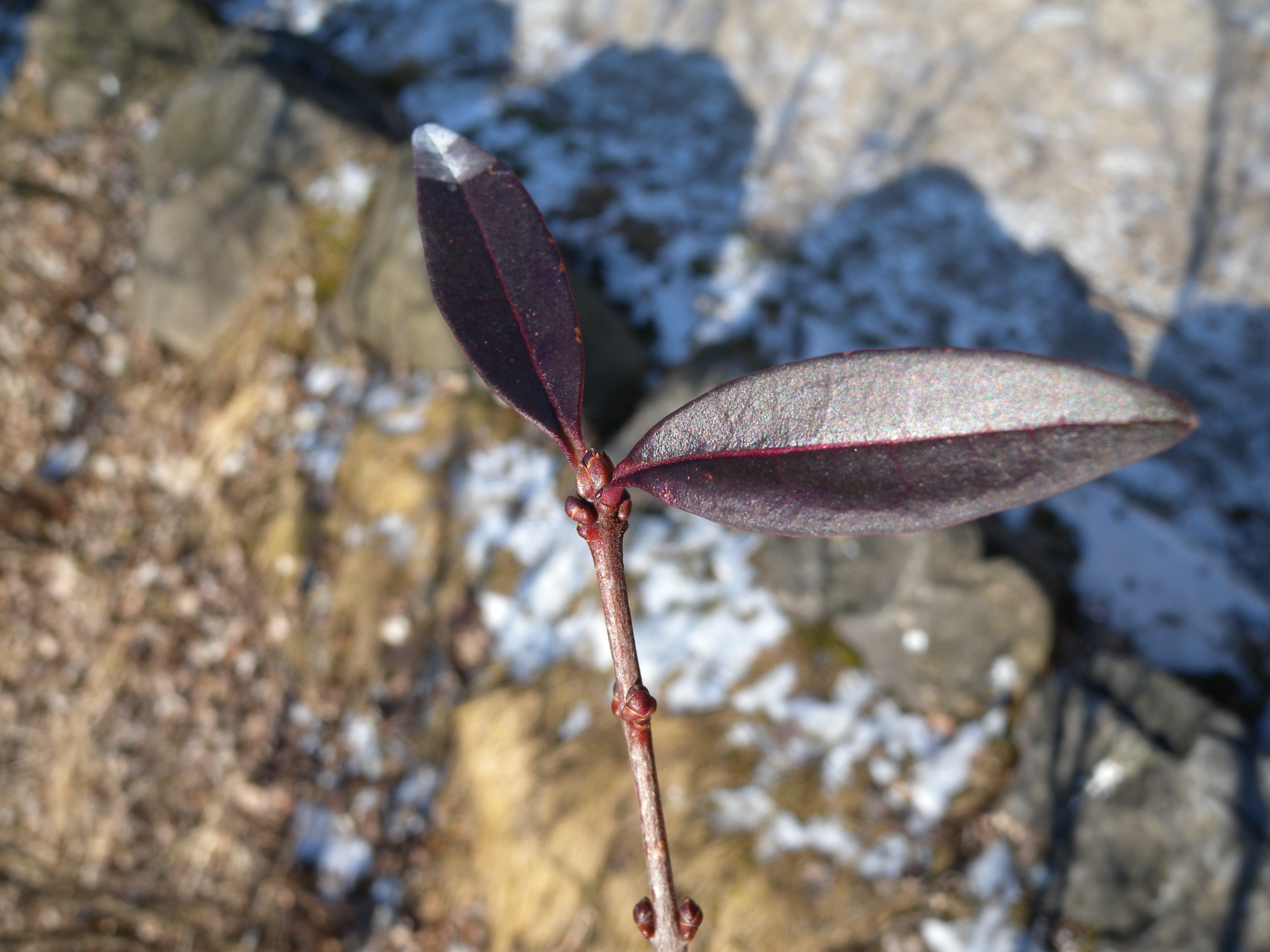 Buds and leaves of Ligustrum vulgare (Oleaceae) in February; Bern, Switzerland